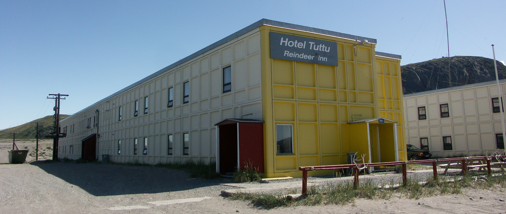 Kangerlussuaq, Greenland. Hotel Tuttu / Reindeer Inn. Housed in the recycled American Air Force barracks.